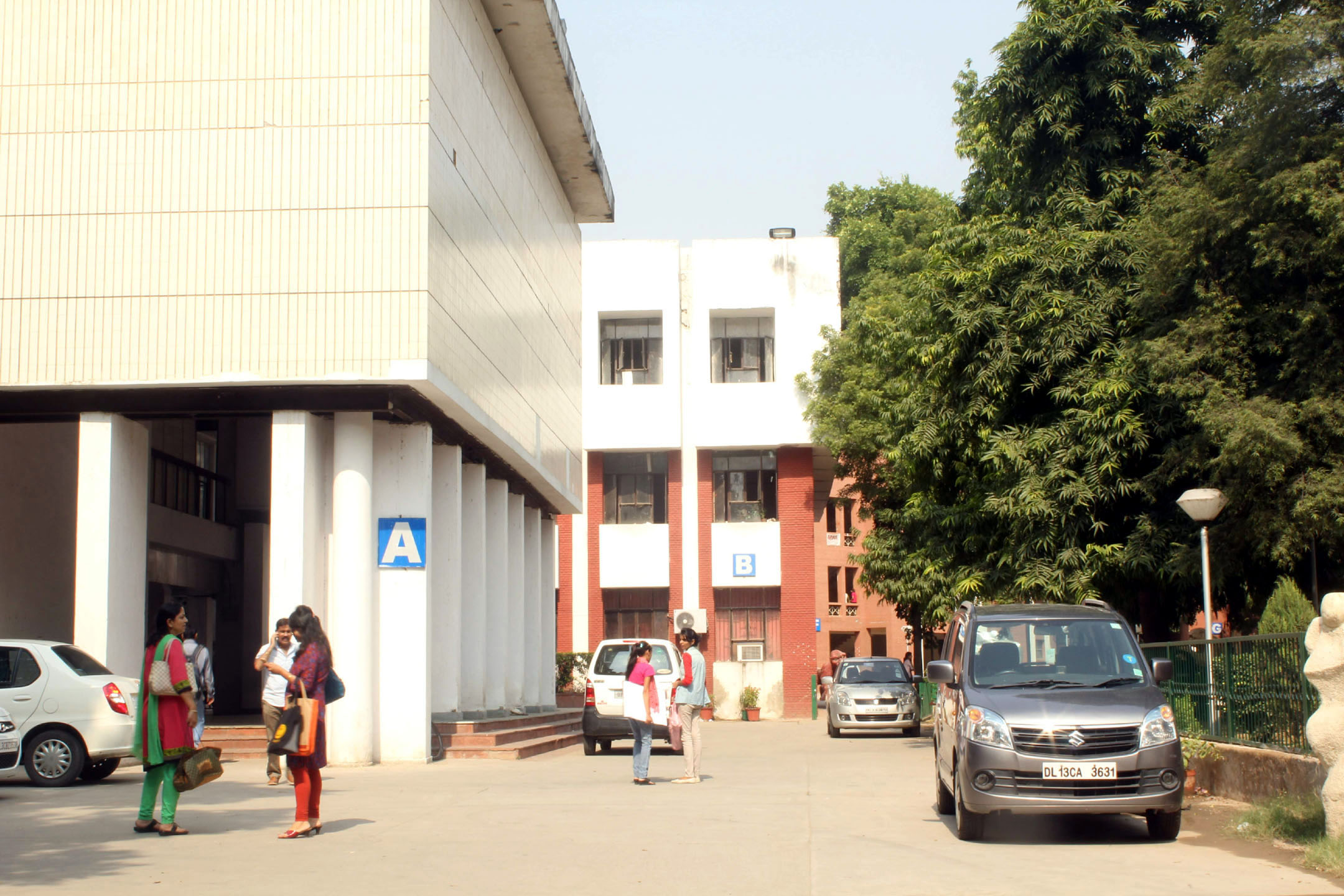 Main Building of College of Art, New Delhi, India 110001, Photo by Yogesh Gurera